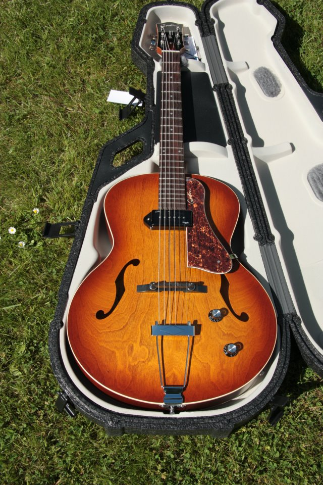 Godin 5th Avenue Kingpin